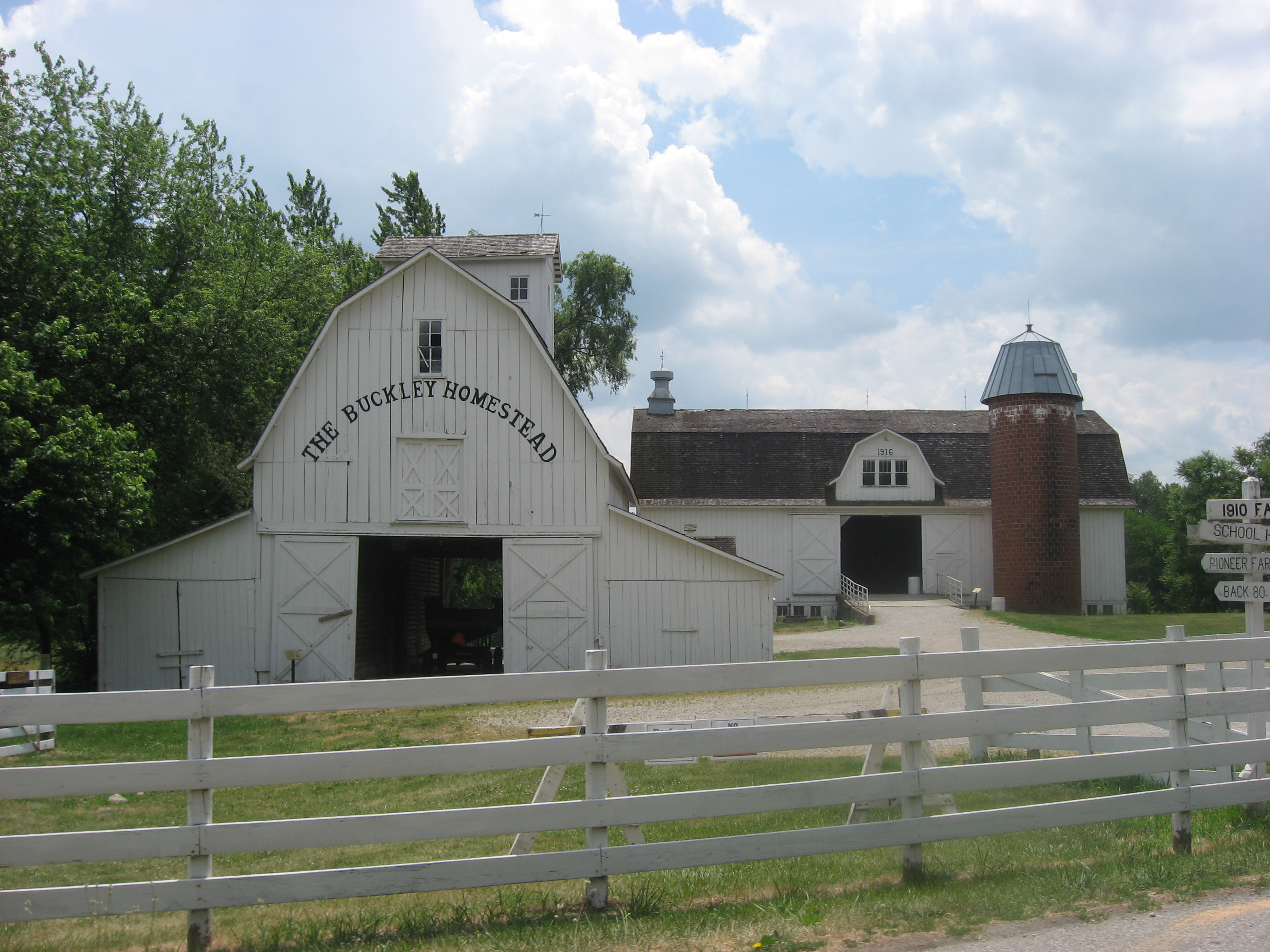 Barns at the Buckley Homestead, located at 3606 Belshaw Road southeast of Lowell in Cedar Creek Township, Lake County, Indiana, United States. Built in 1916, they form part of the Buckley Homestead complex, a county park that is listed on the National Register of Historic Places.